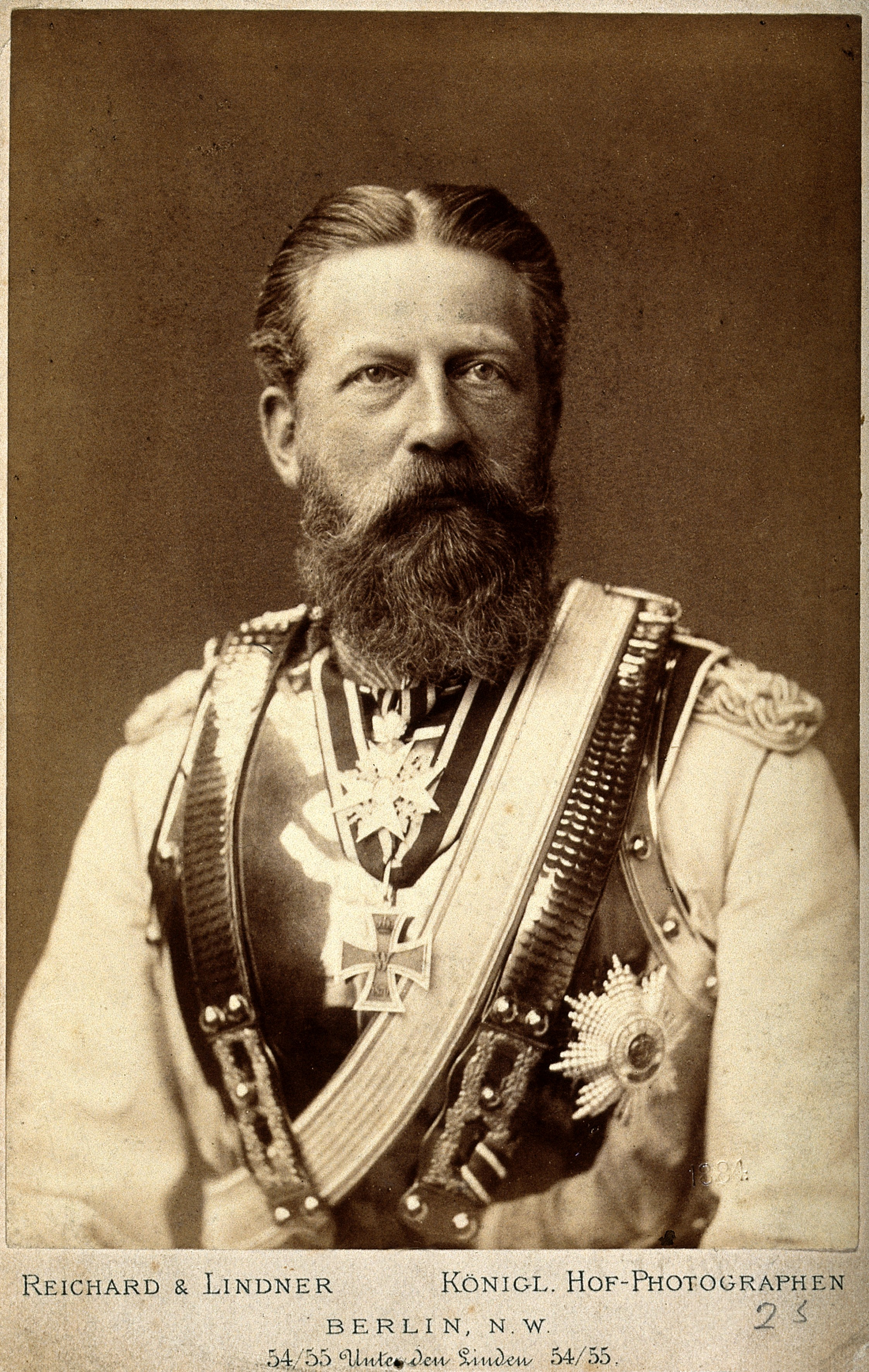 Friedrich III, Crown Prince of Germany. Photograph by Reichard & Lindner, 1887. Iconographic Collections Keywords: portrait photographs